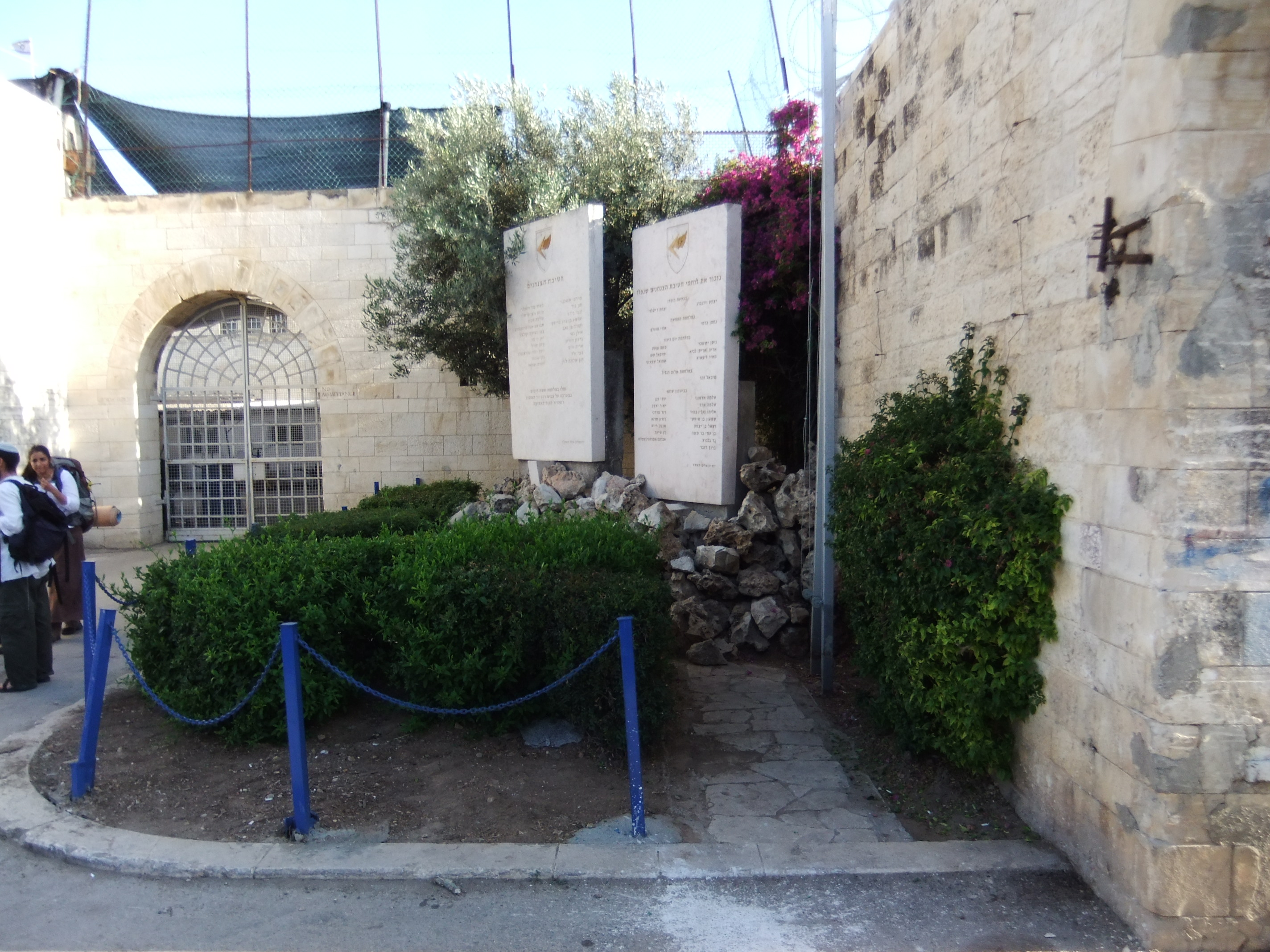 Monument for paratroopers brigade 55 (the bigade commandment) behind Rockfeller museum